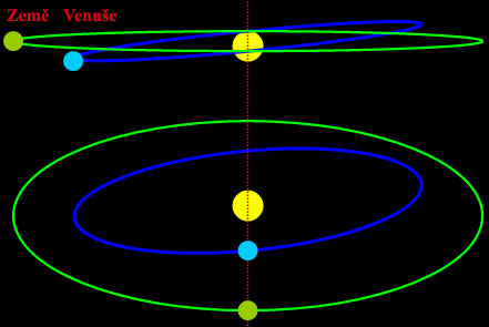 Diagram showing how transits of Venus occur and why they don't occur frequently. Drawn by User:Theresa Knott; License see: [1]